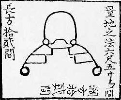 Picture of the tomb of Noha family, Okinawa